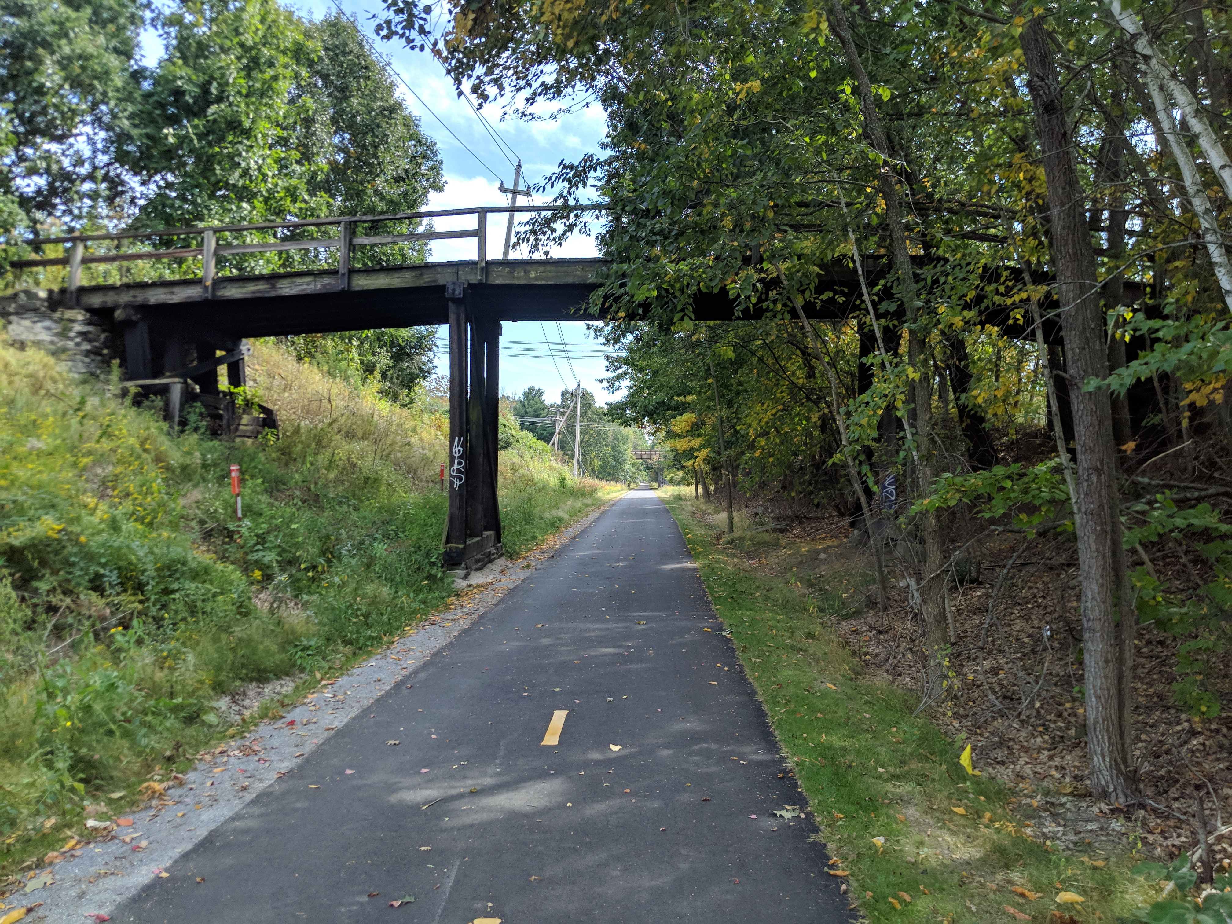 Bridge, Methuen Rail Trail, Methuen Massachusetts